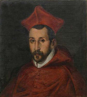 Portrait of Filippo Guastavillani ((1541-1587))